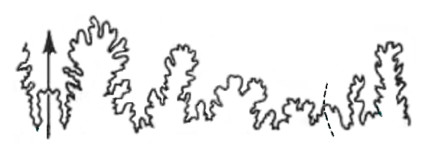 example of ammonitic sutural pattern. Genus Fagesia Pervinquiére (Turonian)